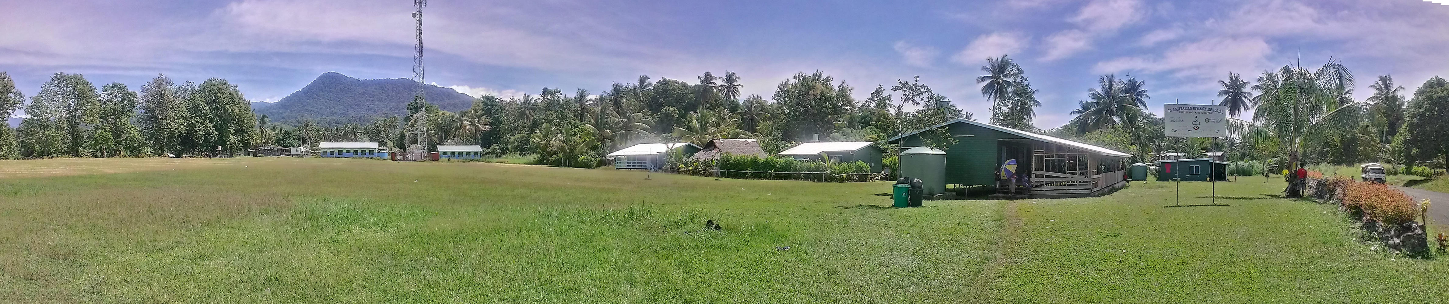 Panoramic photo of Situm Community. Health center on right and 7th Australian Division Memorial School on left